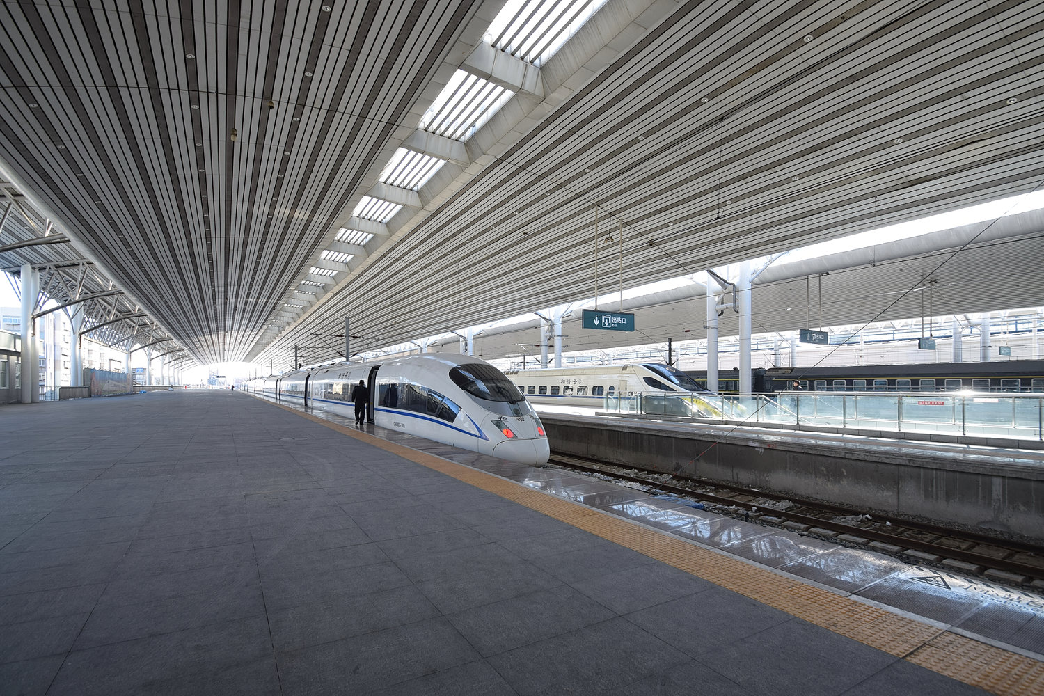 CRH380BG-5803 EMU was stopping at Platform 1 of Dandong Railway Station (view towards Sinŭiju Ch'ŏngnyŏn Station).